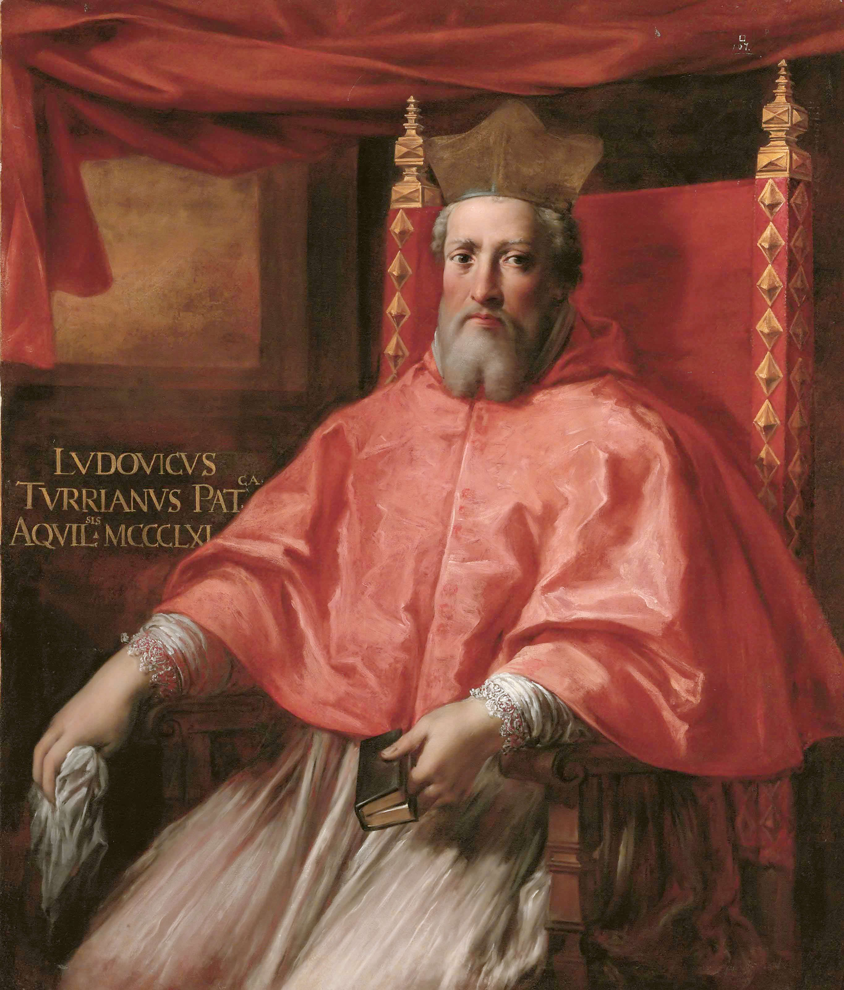 Cardinal Ludovico Turriano, Patriarch of Aquilea oil on canvas 136.9 x 117 cm inscribed c.l.: LVDOVICVS / TVRRIANVS PAT.CA. / AQVIL.SIS· MCCCLXI 17th century